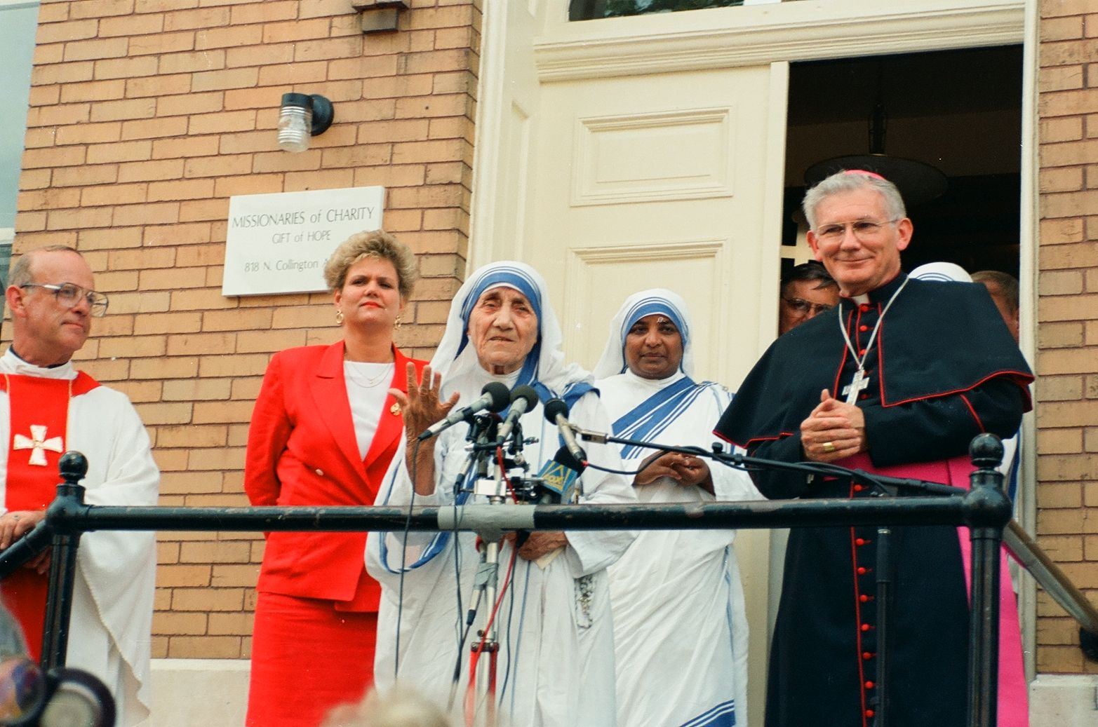 From Baltimore Maryland August 2, 1992